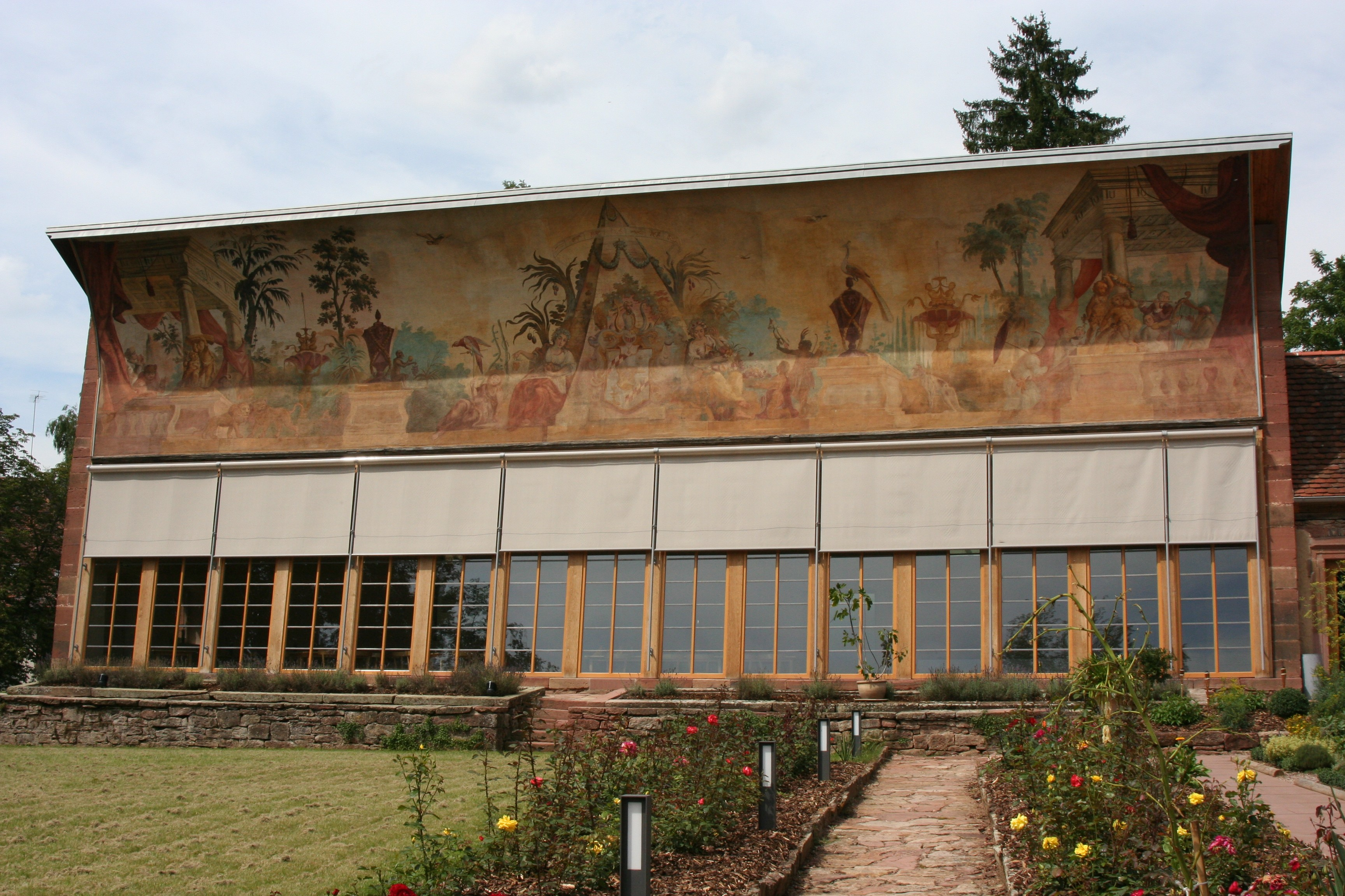 Bronnbach Abbey. Orangery